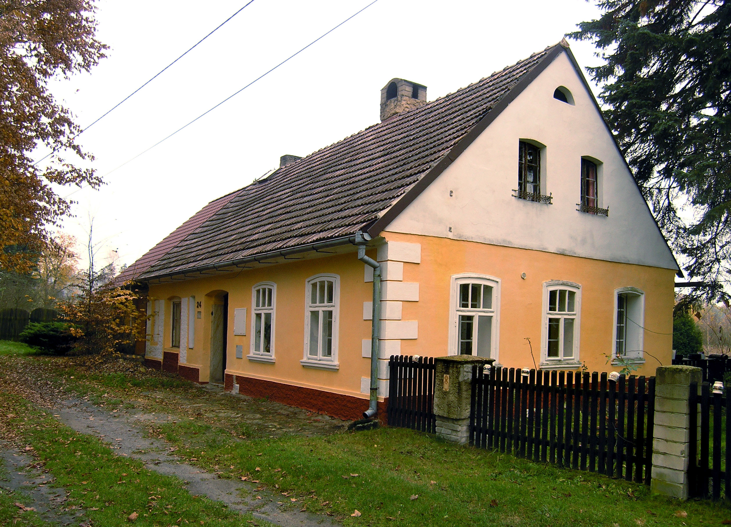 Hostíkovice, part of Holany village, Czech Republic